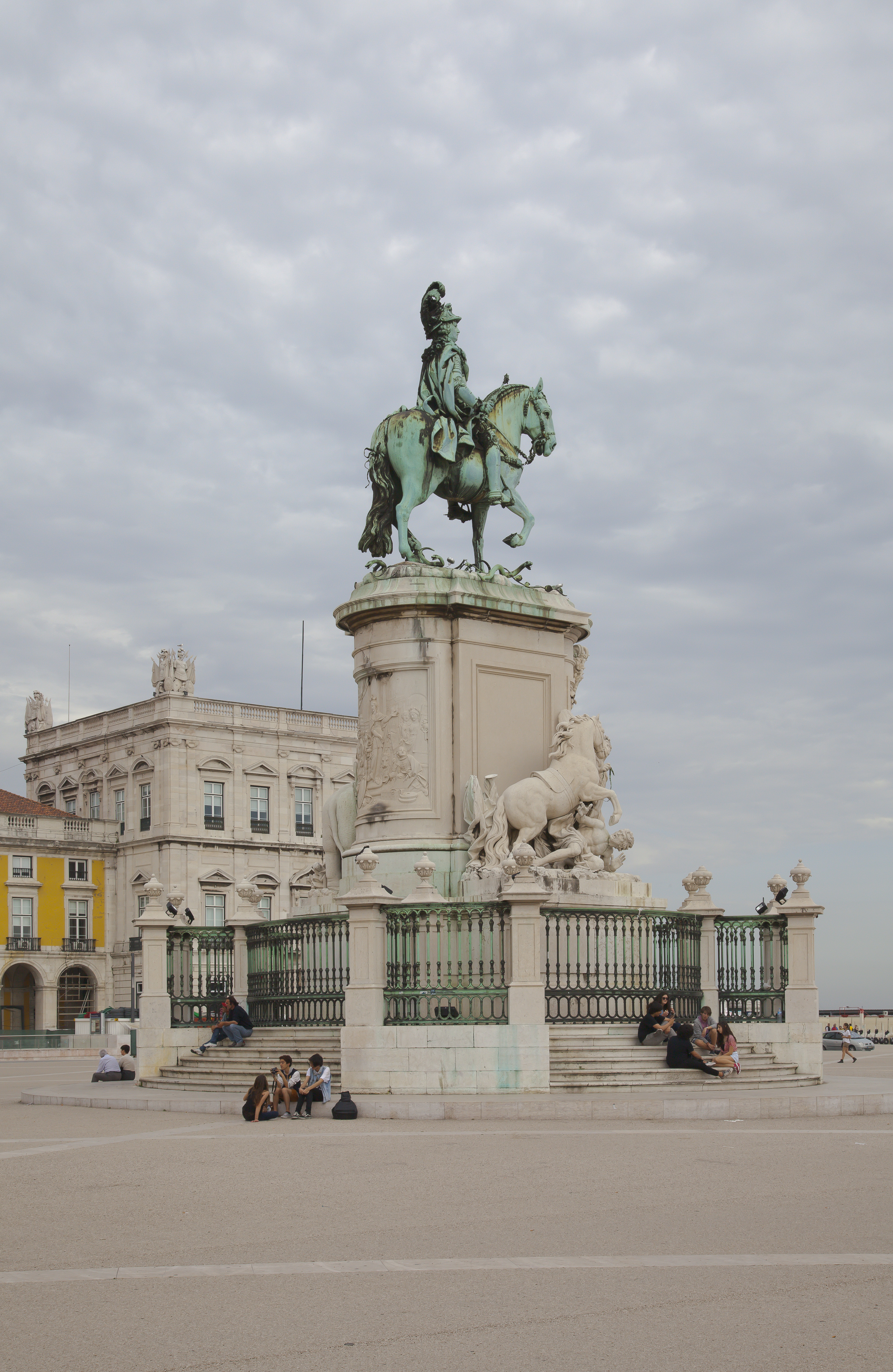 Statue of D. Joseph, Commerce Square, Lisbon, Portugal